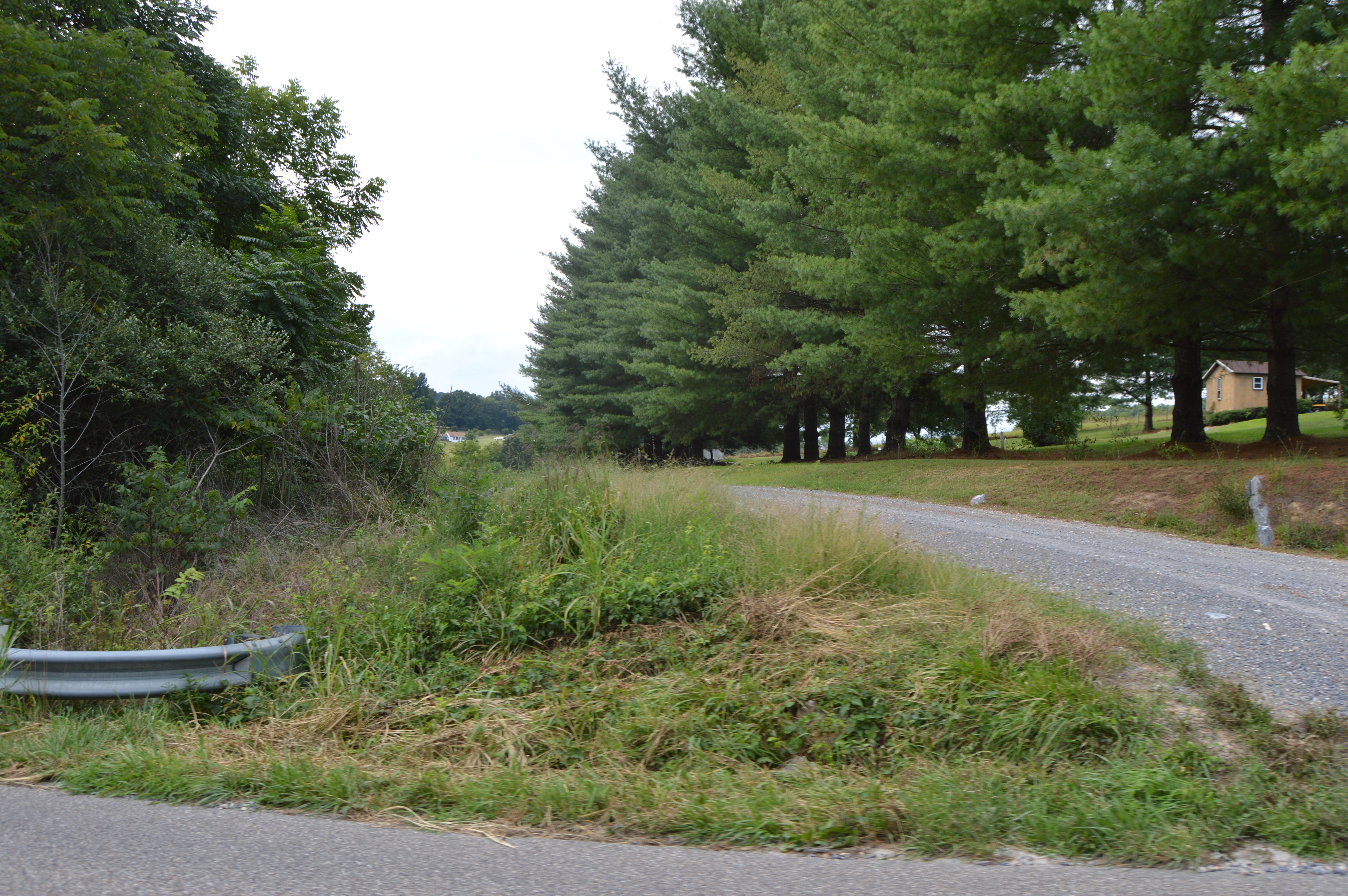 Driveway to the Locust Hill estate, located on Forge Road west of Buena Vista in Rockbridge County, Virginia, United States. The estate is listed on the National Register of Historic Places.